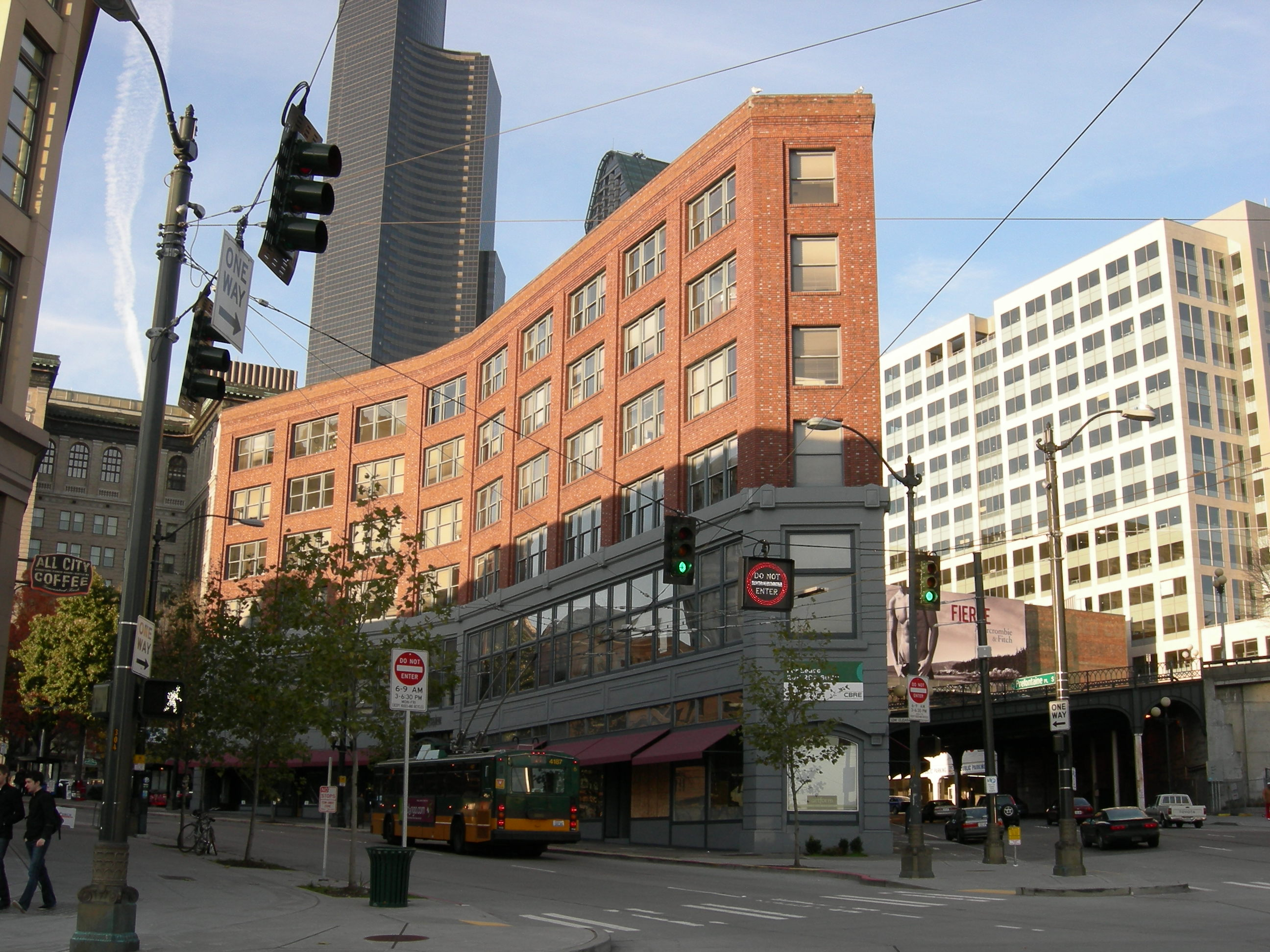 Prefontaine Building, 110 Prefontaine Place South, Pioneer Square neighborhood, Seattle, Washington, USA. Built 1909. This building is named for Father Francis X. Prefontaine, a French Canadian priest who had built Seattle's first Catholic church on this site. Father Prefontaine died in 1909, the same year that this building was constructed. For more about the building, see Summary for 110 S Prefontaine PL S / Parcel ID 5247801045, Seattle Department of Neighborhoods.